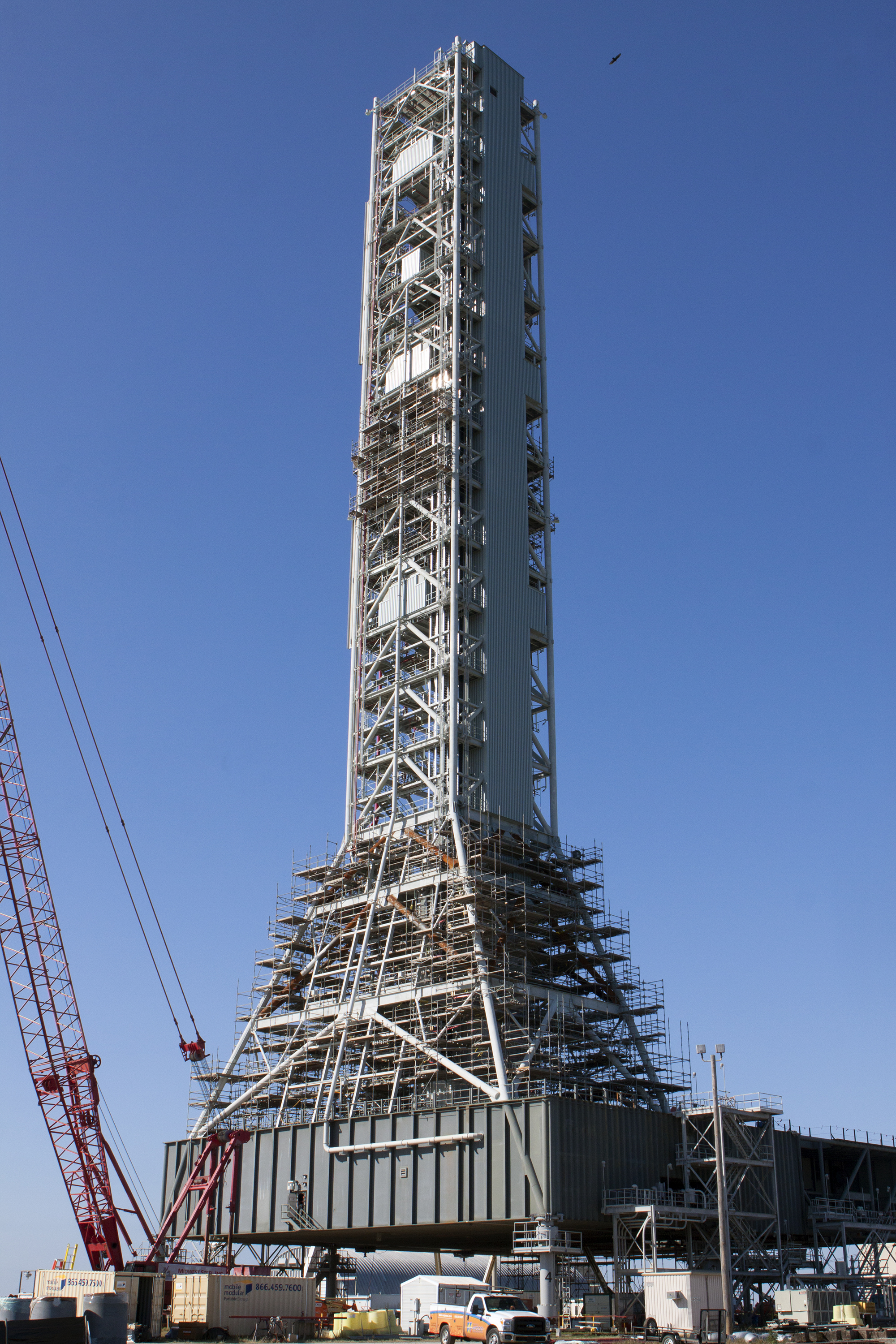 Modifications continue on the Mobile Launcher, or ML, at the Mobile Launcher Park Site at NASA’s Kennedy Space Center in Florida. A crane is being used to move scaffolding, or work platforms, around the base of the tower on the ML to continue upgrades and modifications to the structure. The ML is being modified and strengthened to accommodate the weight, size and thrust at launch of NASA's Space Launch System, or SLS, and Orion spacecraft. The ML is one of the key elements of ground support equipment that is being upgraded by the Ground Systems Development and Operations Program at Kennedy. The ML will carry the SLS rocket and Orion spacecraft to Launch Pad 39B for its first uncrewed mission, Exploration Mission-1, in 2018.